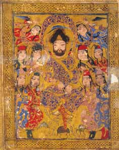 Arab painting is the frontispice of a manuscript of Kitāb al-Aghānī (Book of Songs) of Abu al-Faraj al-Isfahani. It may be a representation of Badr al-Din Lu'lu'